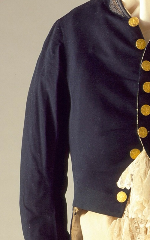 Title Man's Military Uniform (detail)Description